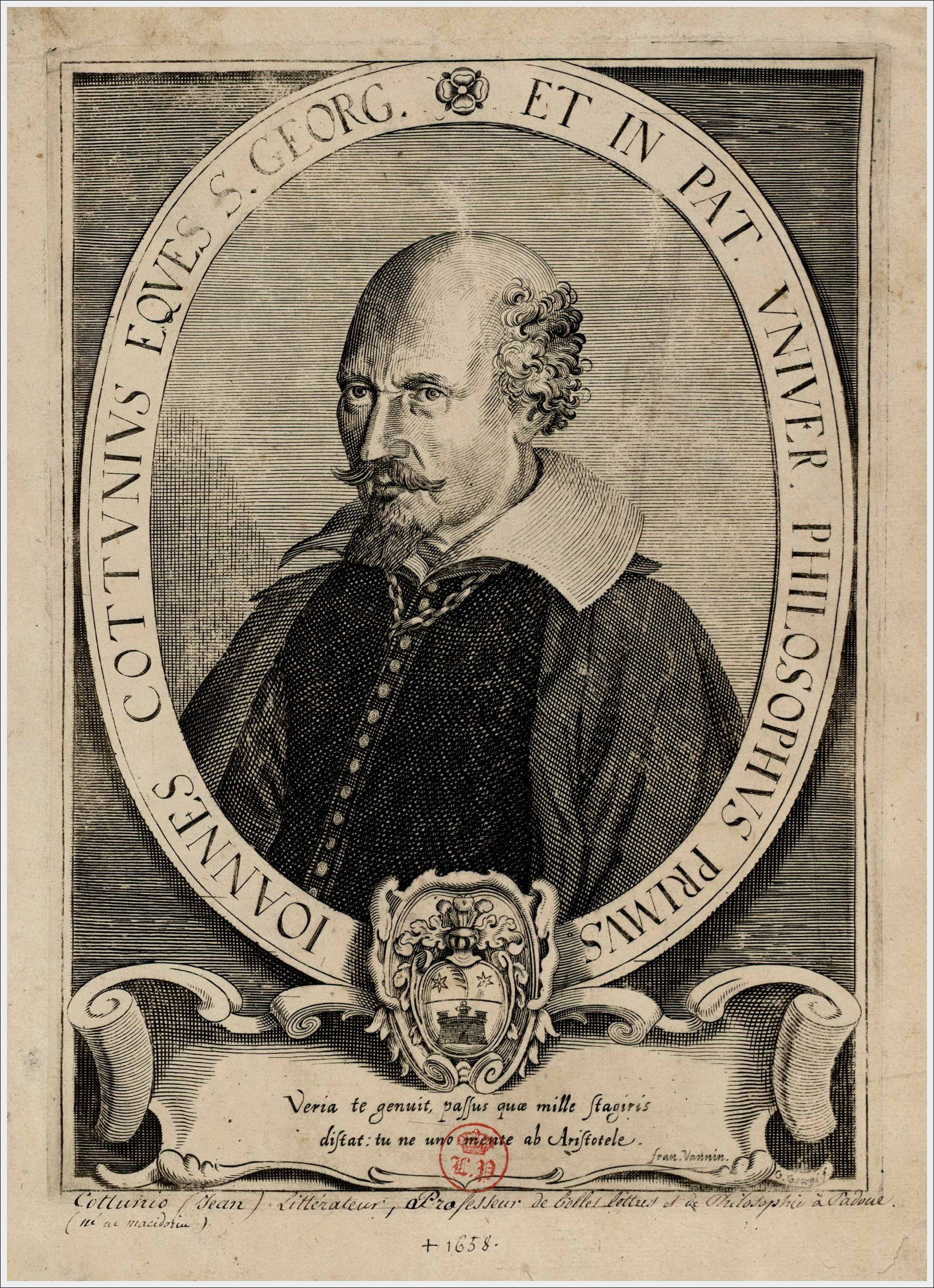 Ioannis Kottounios (1572-1657), (Greek: Ιωάννης Κοττούνιος) Giovanni Cottunio, Greek Macedonian scholar. He was born in Veria in 1572. Professor and Lecturer at the University of Padua. Inscription: IOANNES COTTVNIUS EQVES S. GEORG. ET IN PAT. VNIVER. PHILOSOPHVS PRIMVS""